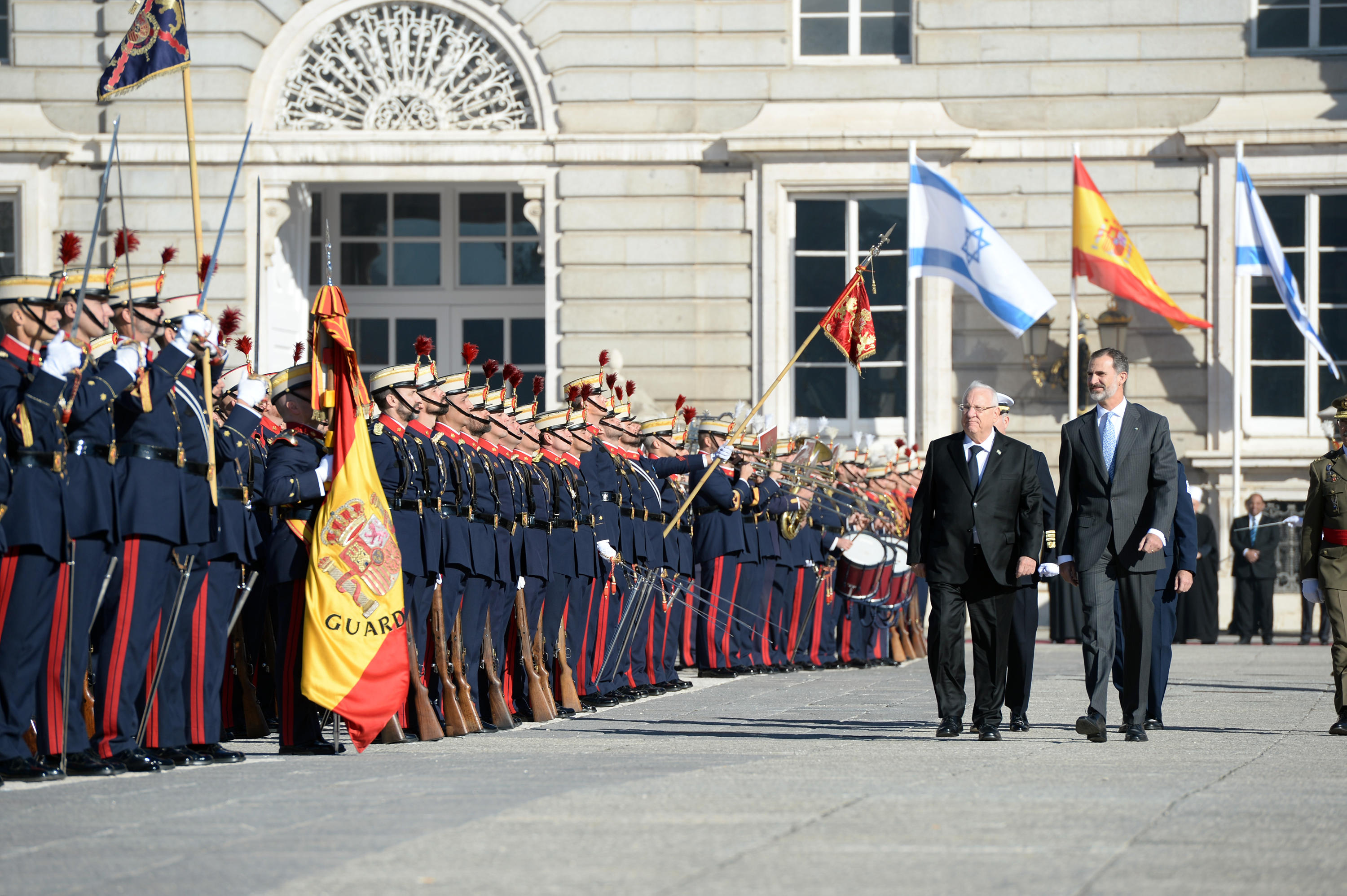 President of the State, Reuven Rivlin, at a special ceremony for a reception at the Spanish royal palace in honor of his arrival. Monday, November 6, 2017. Photo Credit: Haim Tzach / GPO